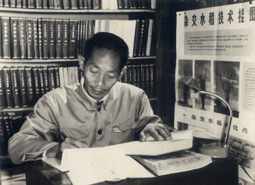 Yuan was reading the newspaper in 1962.